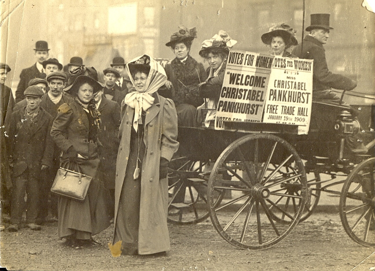 Suffragette Christobel Pankhurst in Manchester